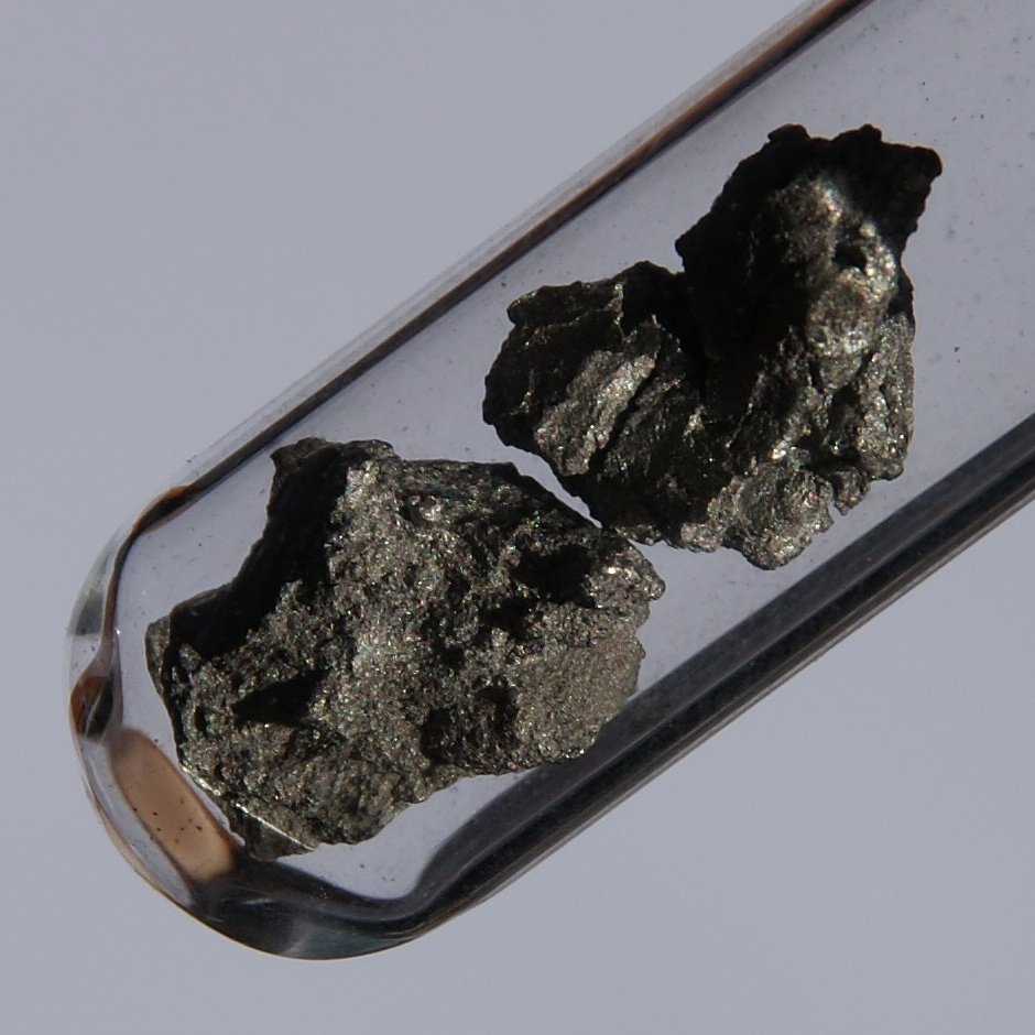 Two pieces of zirconium, 1 cm each.